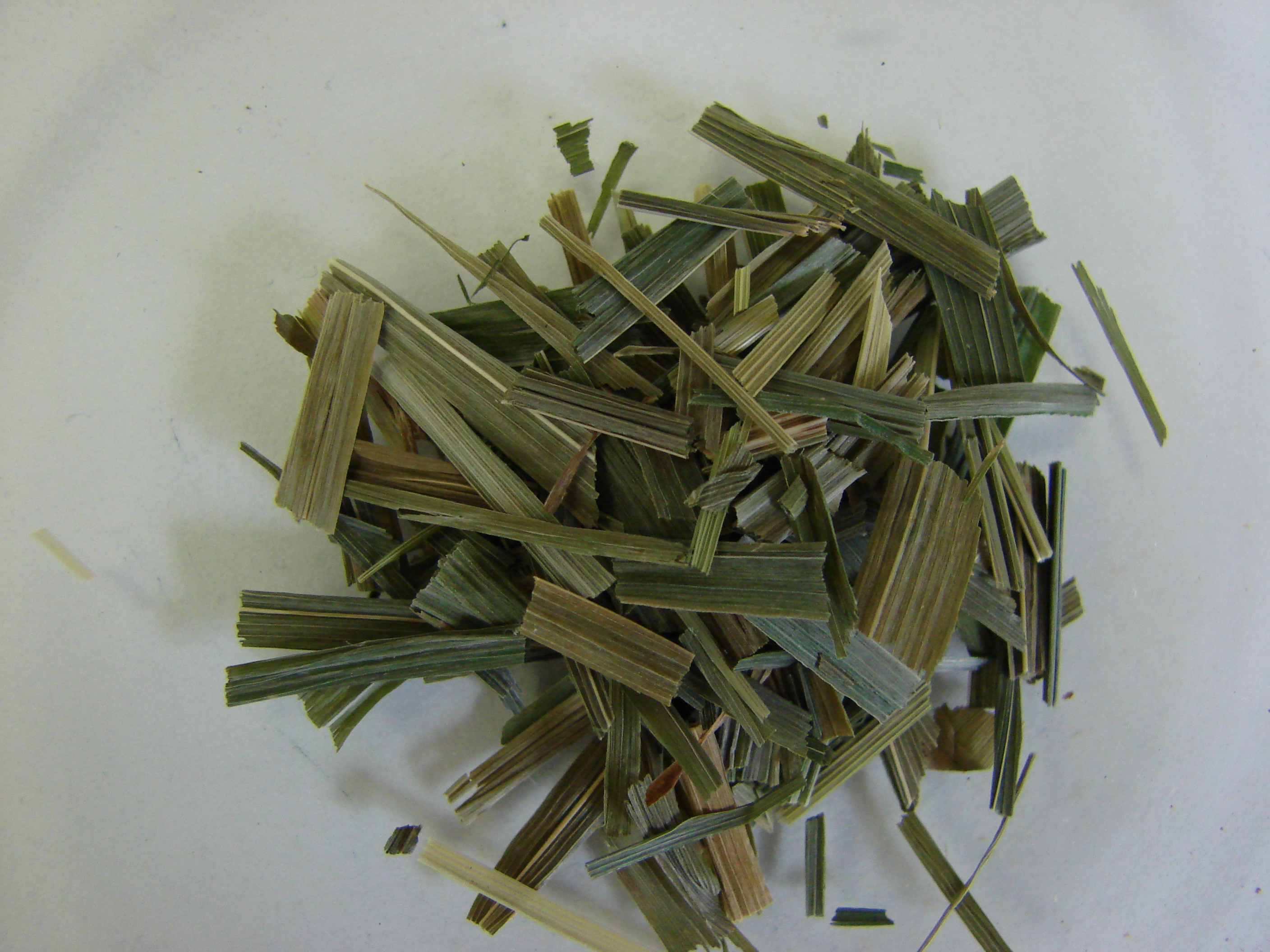 Hierochloes herba, Hierochloe odorata